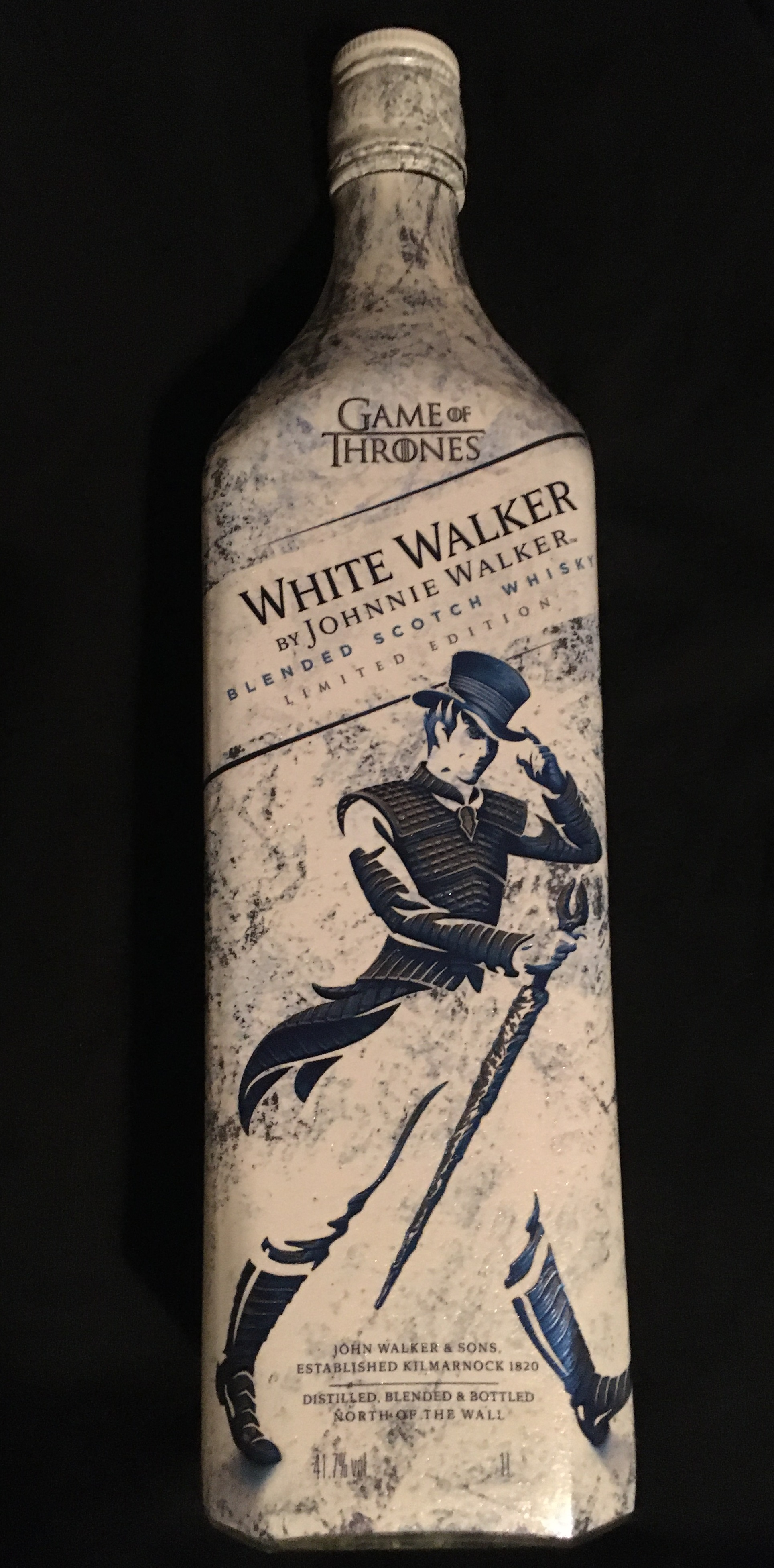 Johnnie Walker's Game of Thrones inspired whisky White Walker. It was released in October 2018 and was the first of several GoT-whiskies. It's my bottle and it's empty.